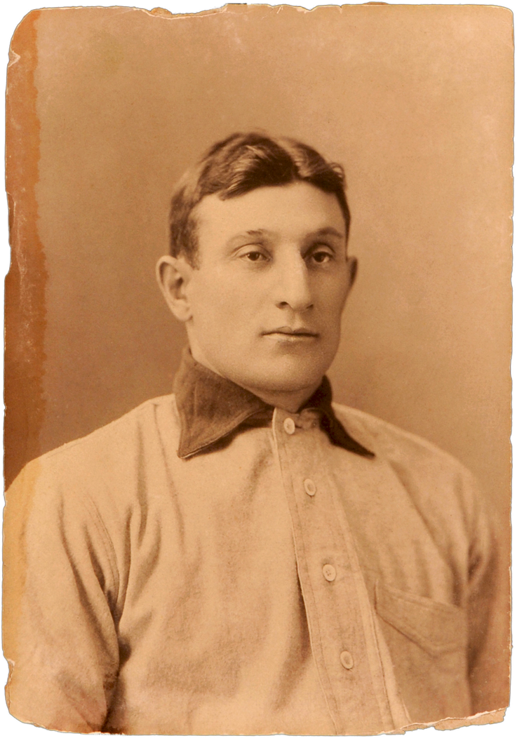 Honus Wagner T206 Portrait Cabinet Photo